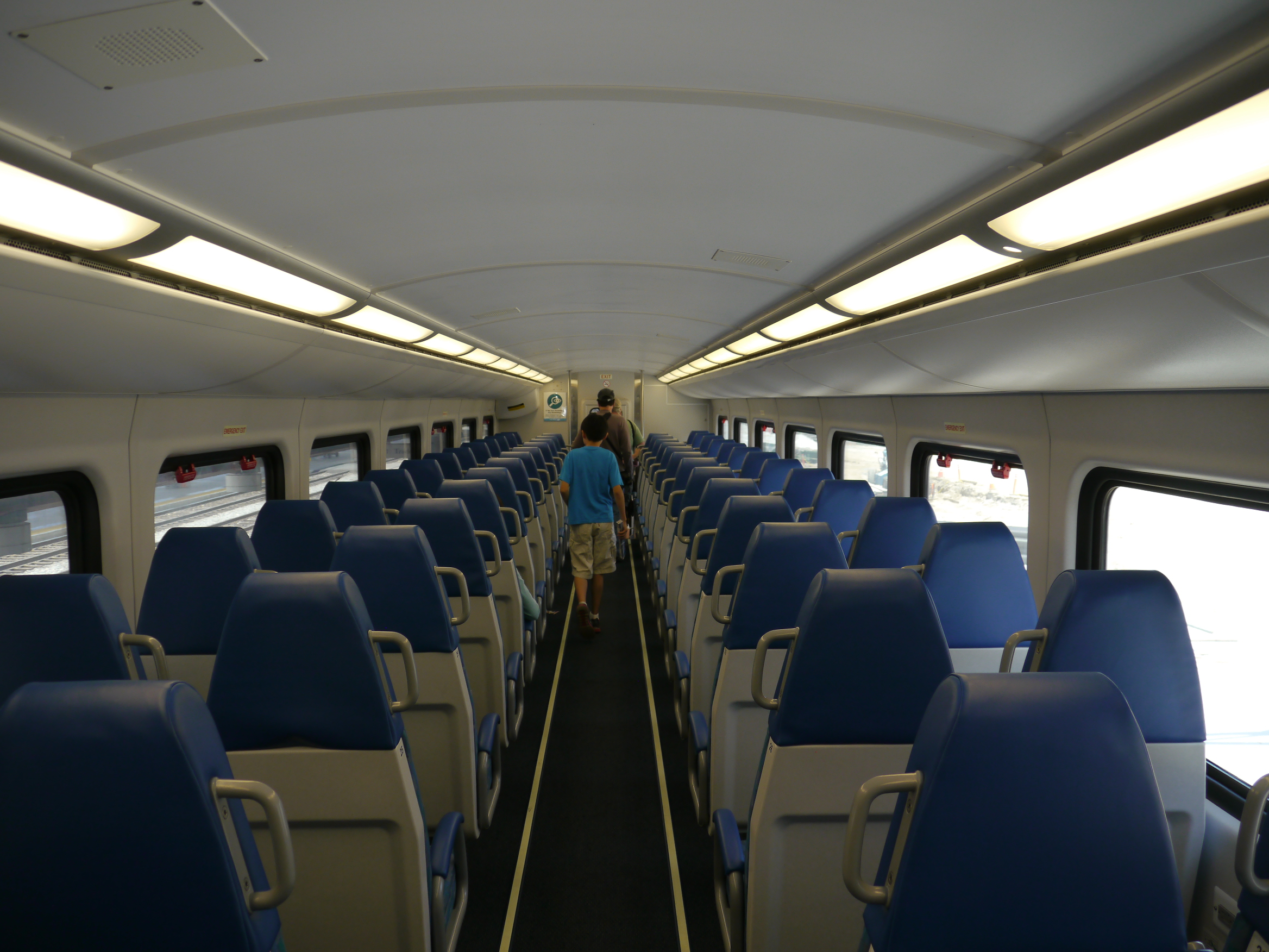 National Train Day, Los Angeles Union Station.